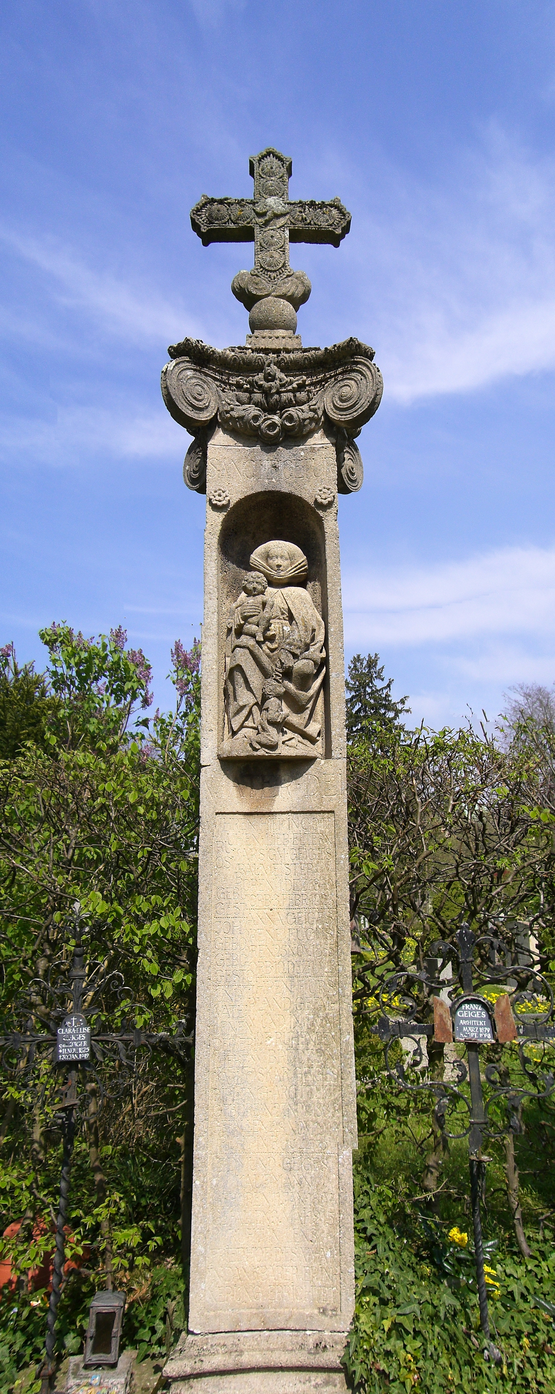 OpenStreetMap(Info) NOTE: This image is a panorama consisting of multiple frames that were merged in software. As a result, this image necessarily underwent some form of digital manipulation. These manipulations may include blending, blurring, cloning, and color and perspective adjustments. As a result of these adjustments, the image content may be slightly different than reality at the points where multiple images were combined. This manipulation is often required due to lens, perspective, and parallax distortions.